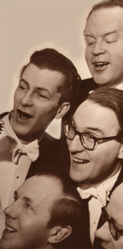 Photo of popular Swedish song quartet Kvartetten Synkopen